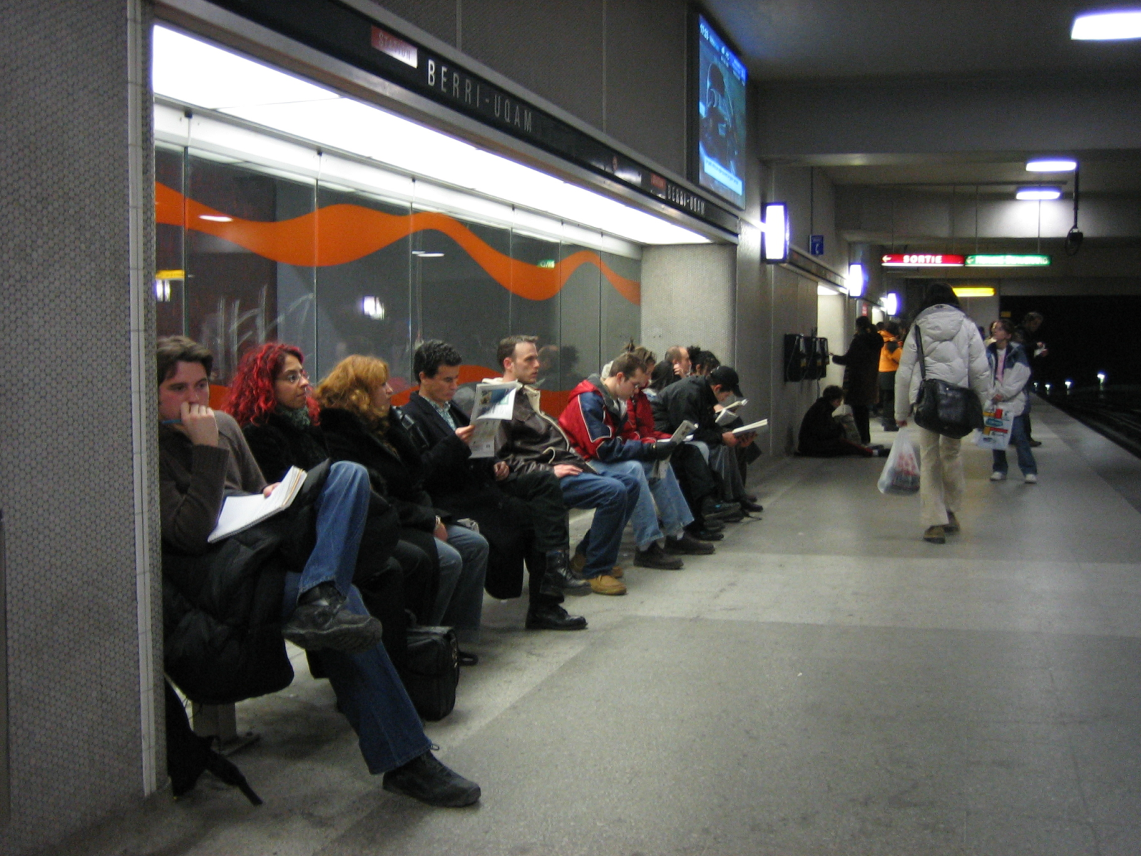 Berri-UQAM Metro station Orange line platform